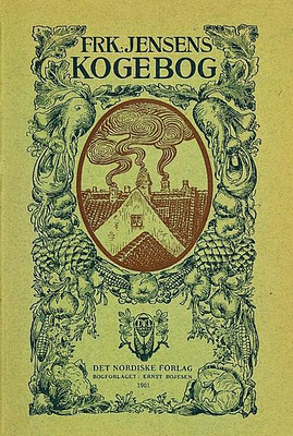 Cover published by "Det Nordiske Forlag" of Frøkken Jensens Kogebog, first published 1901.